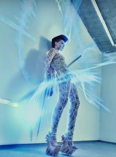 "altered Beauty" Virtual Futures video screenshots of Viktoria Modesta (born on 25 February 1987 as Viktorija Moskaļova in Daugavpils, Latvia) is a Latvian-born English singer-songwriter performance artist and model